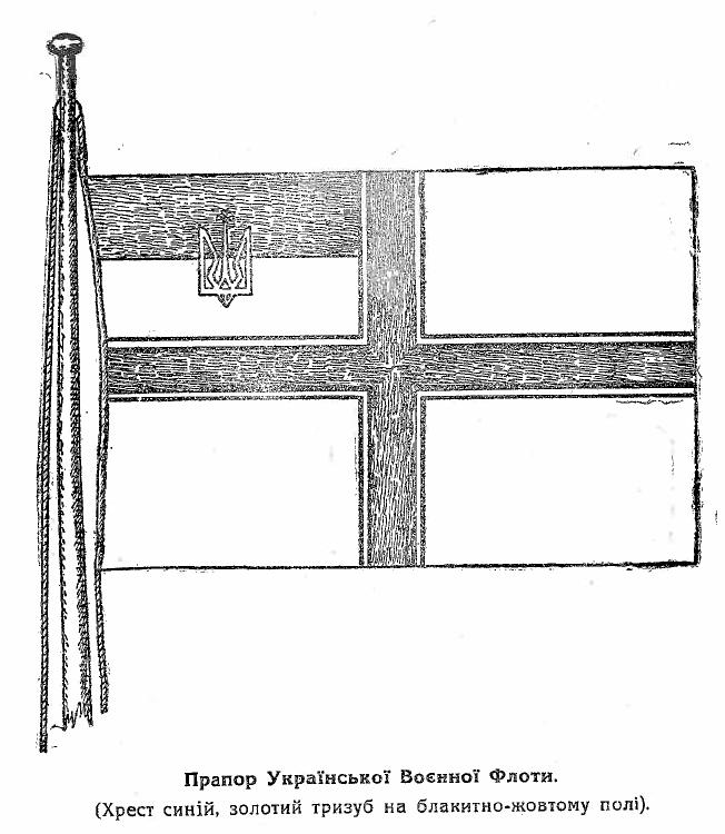 Ukrainian State Fleet Ensign 1918-1924